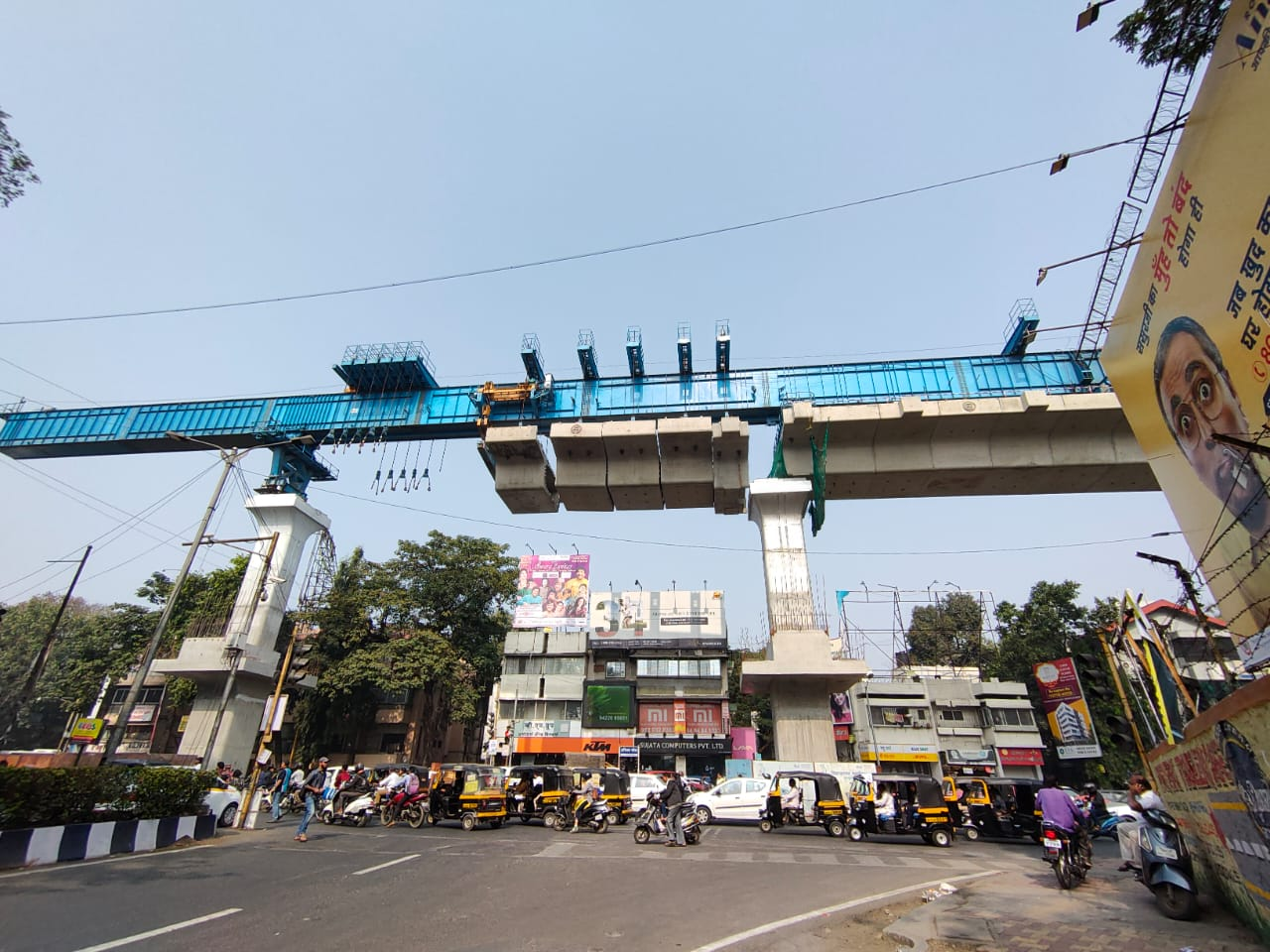 Work in progress at Nalstop for Double Decker Metro-Flyover Bridge.